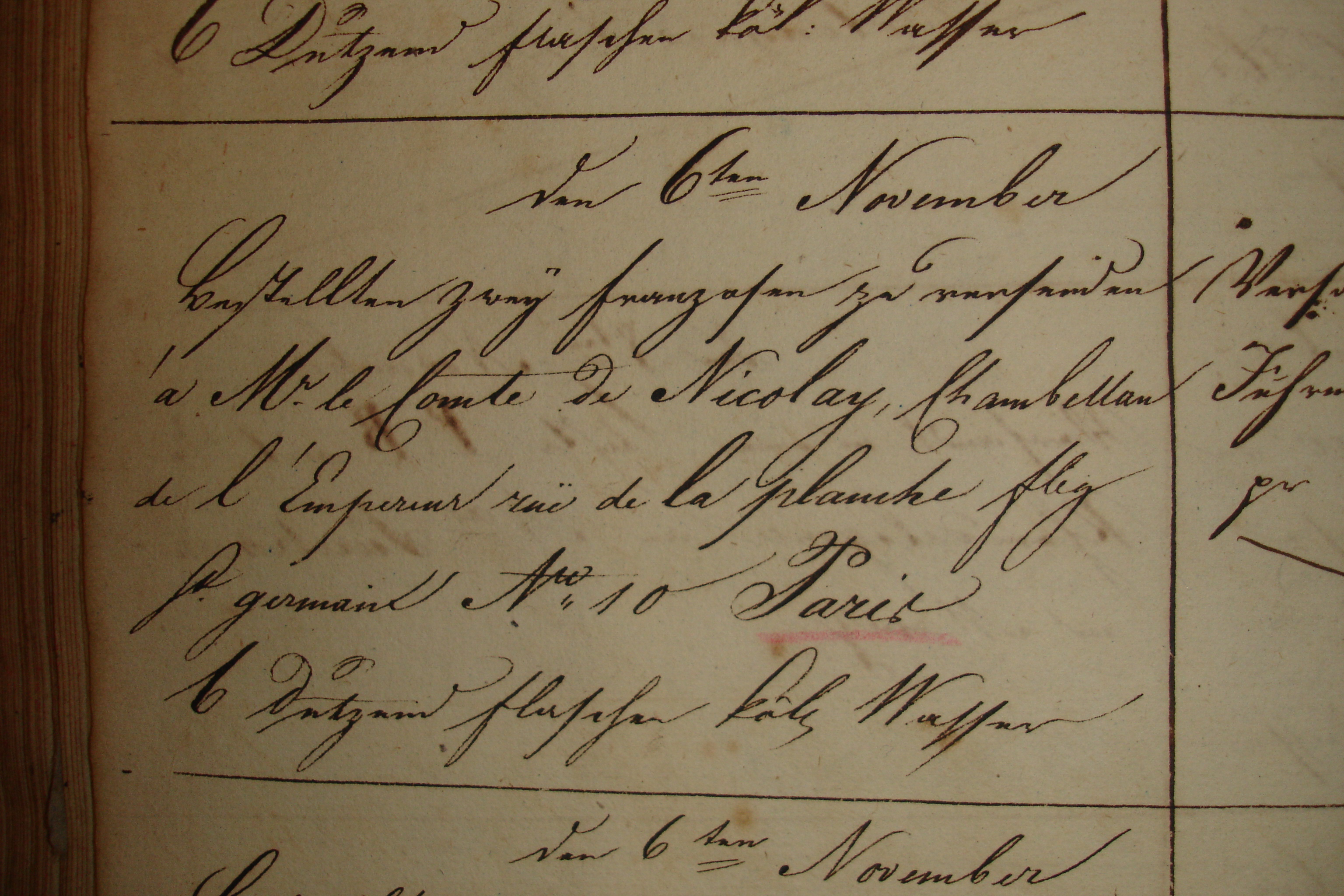 Order for Napoleon